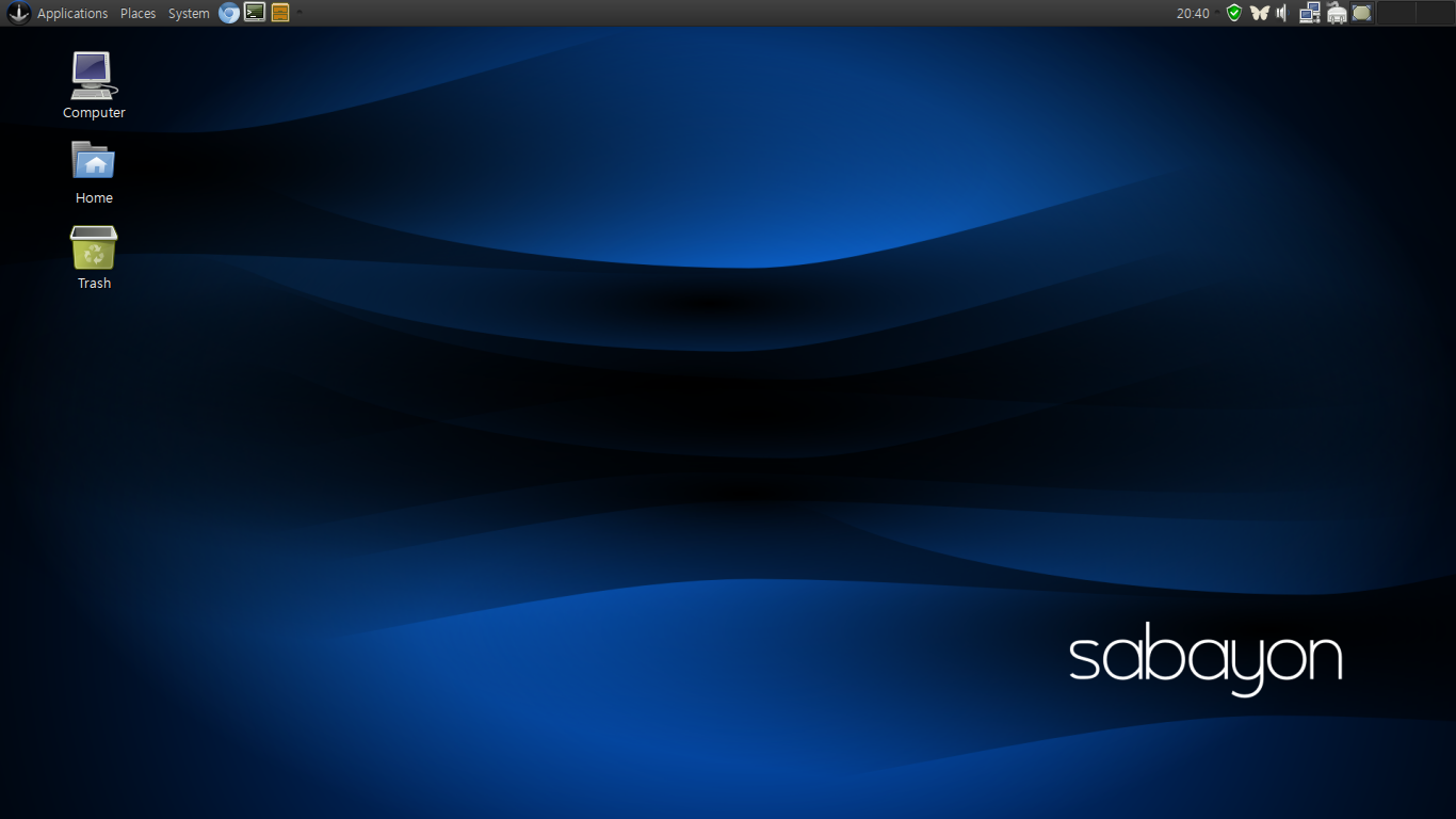 A Screenshot of Sabayon Linux 11 with MATE